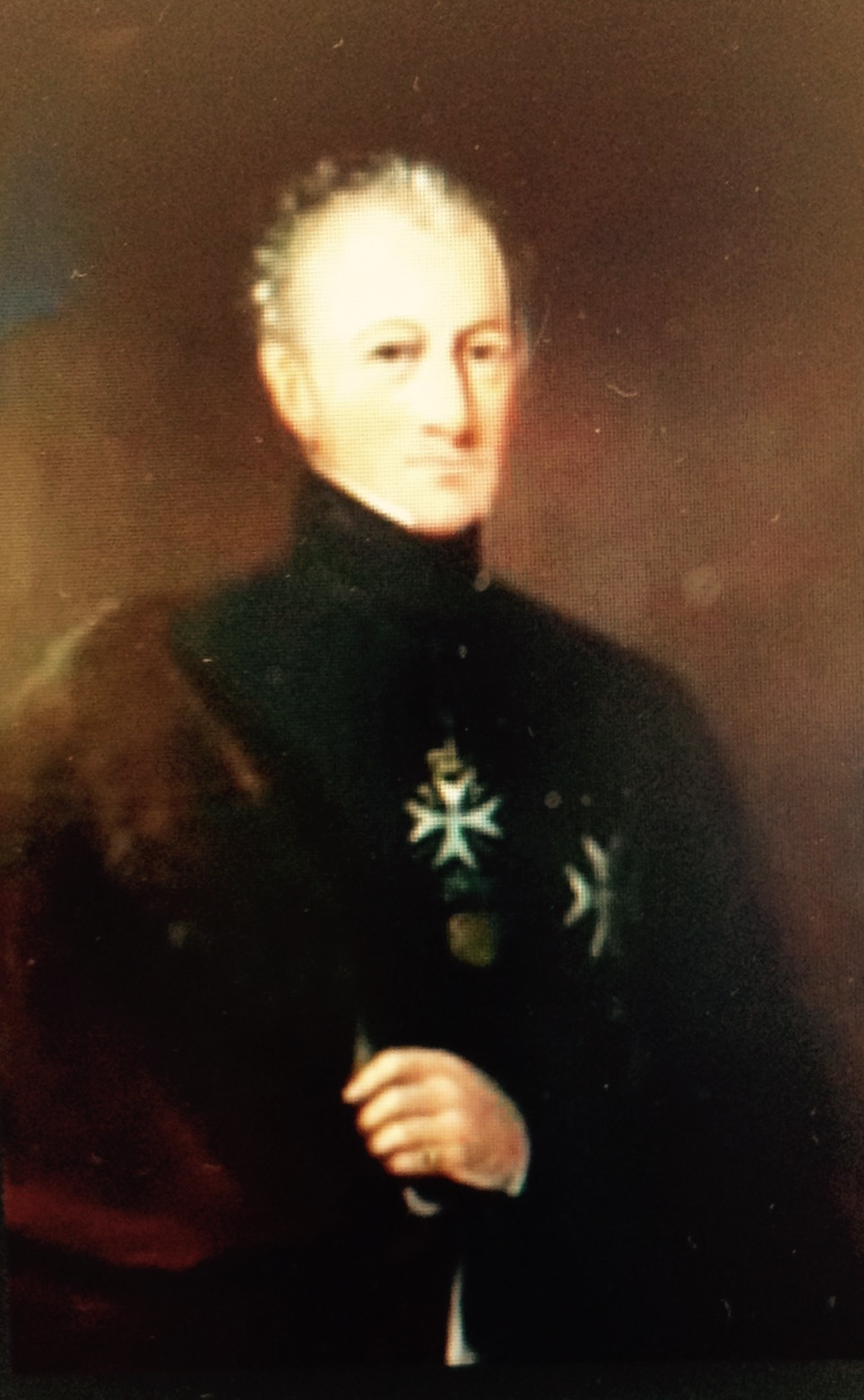 Portrait of Sir William Hillary